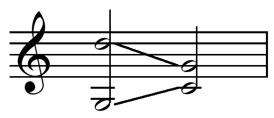 Parallel fifths on C approached by contrary motion. Created by Hyacinth (talk) 19:25, 29 January 2012 (UTC) using Sibelius 5.